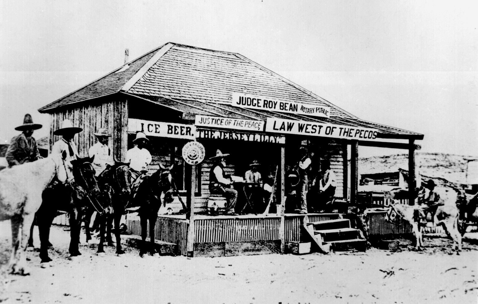 "Judge Roy Bean, the `Law West of the Pecos,' holding court at the old town of Langtry, Texas in 1900, trying a horse thief. This building was courthouse and saloon. No other peace officers in the locality at that time."